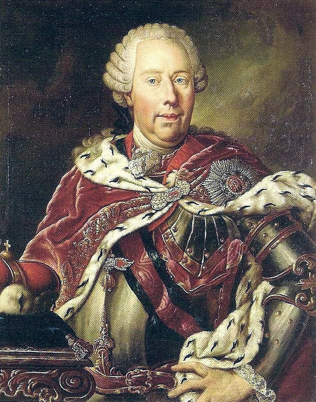 Portrait of Alexander Ferdinand, 3rd Prince of Thurn and Taxis (1704-1773)